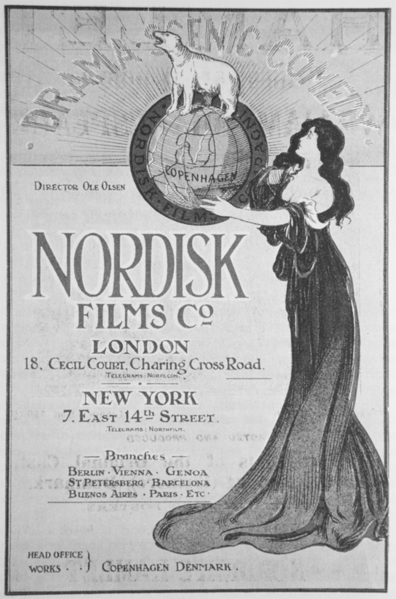 Poster from Nordisk Film